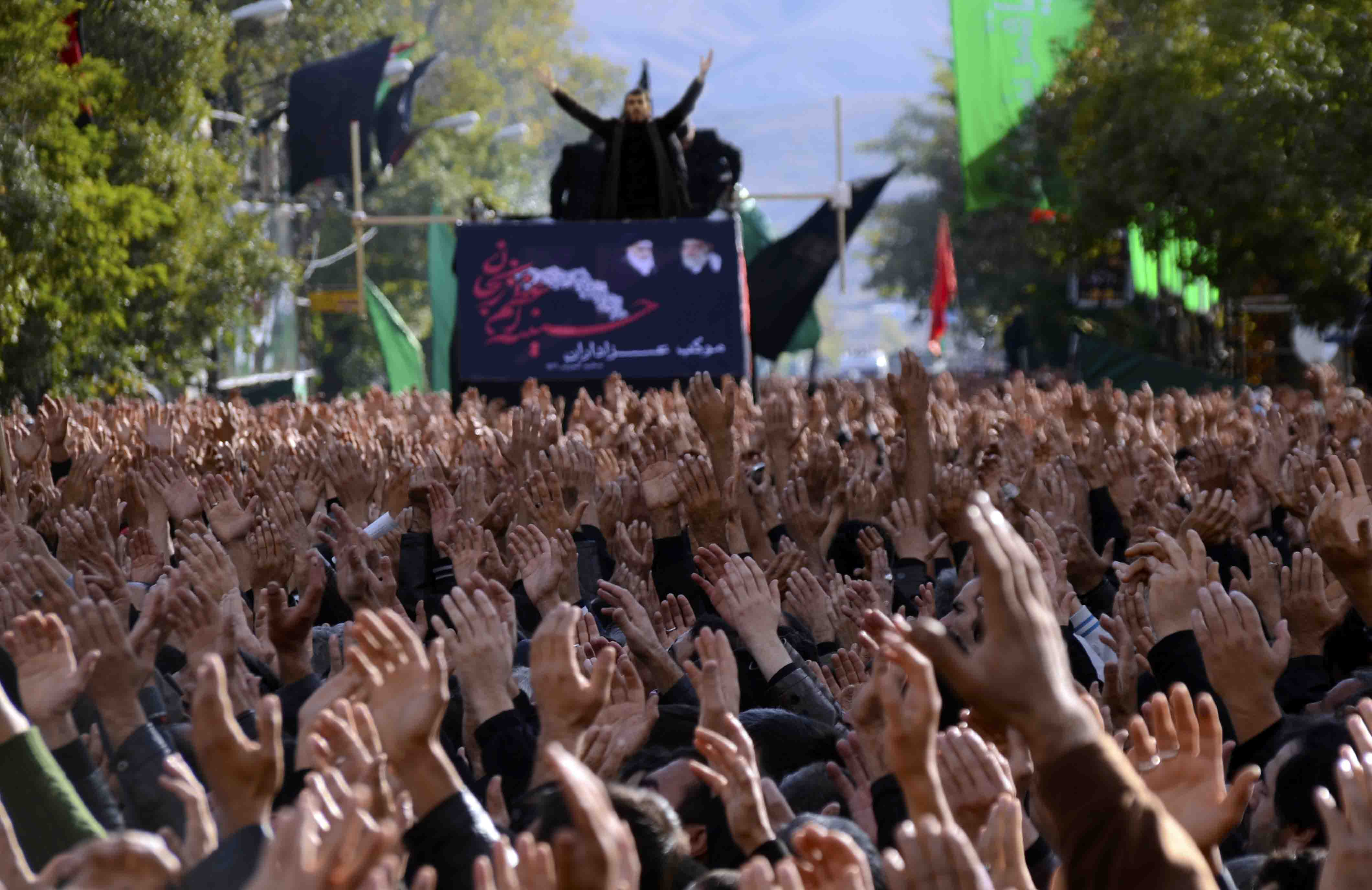 Mourning of Muharram is held in majority of cities and villages in Iran by Shia Muslims annually. Although all sort of ceremonies are performed for Imam Hossein and his followers martyrdom remembrance, they have different styles and rules referring to various cultures.